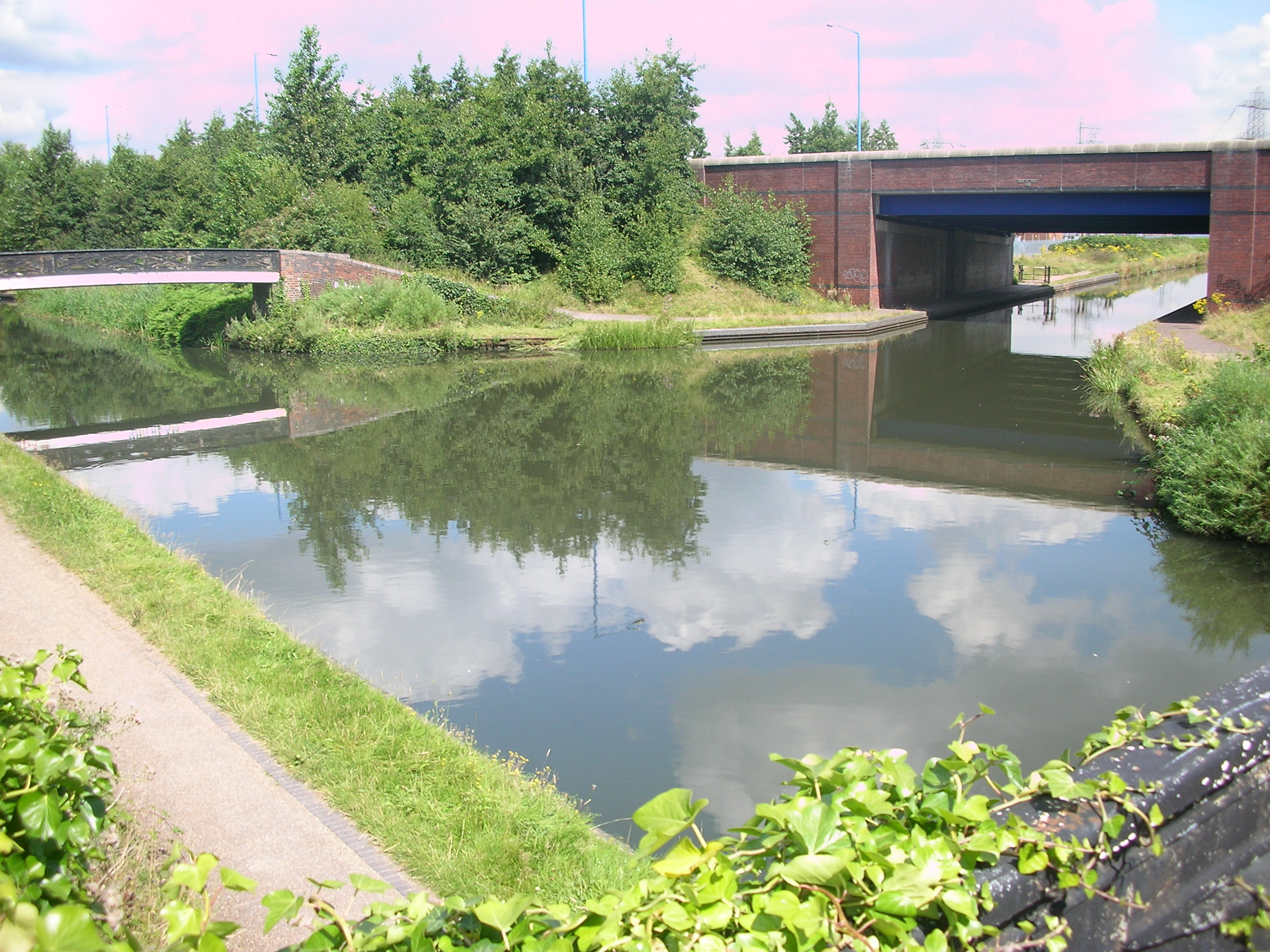 Tame Valley Junction (also called Doe End Junction), the western terminus of the Tame Valley Canal (right) where it joins the Walsall Canal (ahead and behind). Both canals part of the Birmingham Canal Navigations in West Midlands. England. Photographed by me 9 August 2007. Oosoom